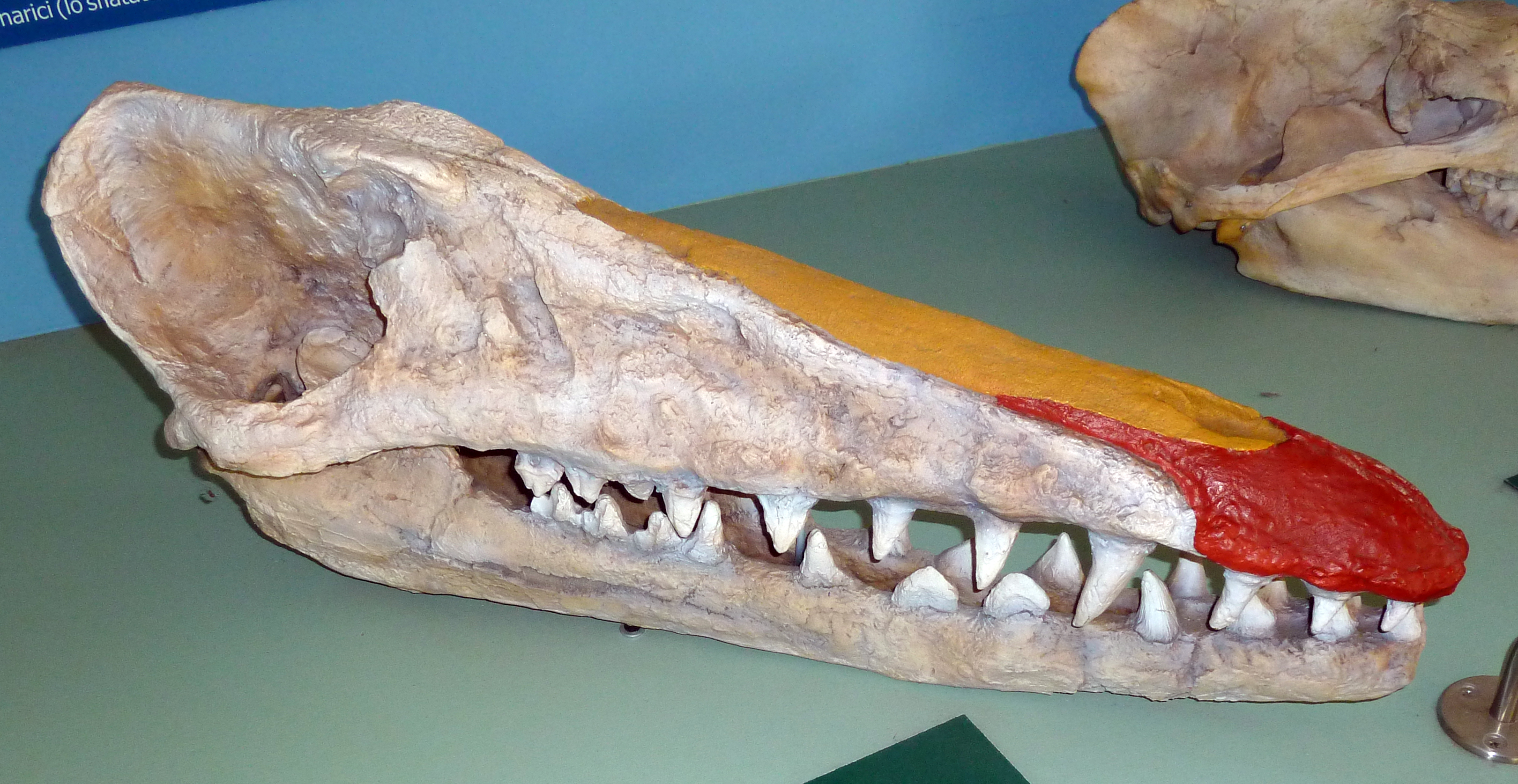 WhaleEvolutionPisa